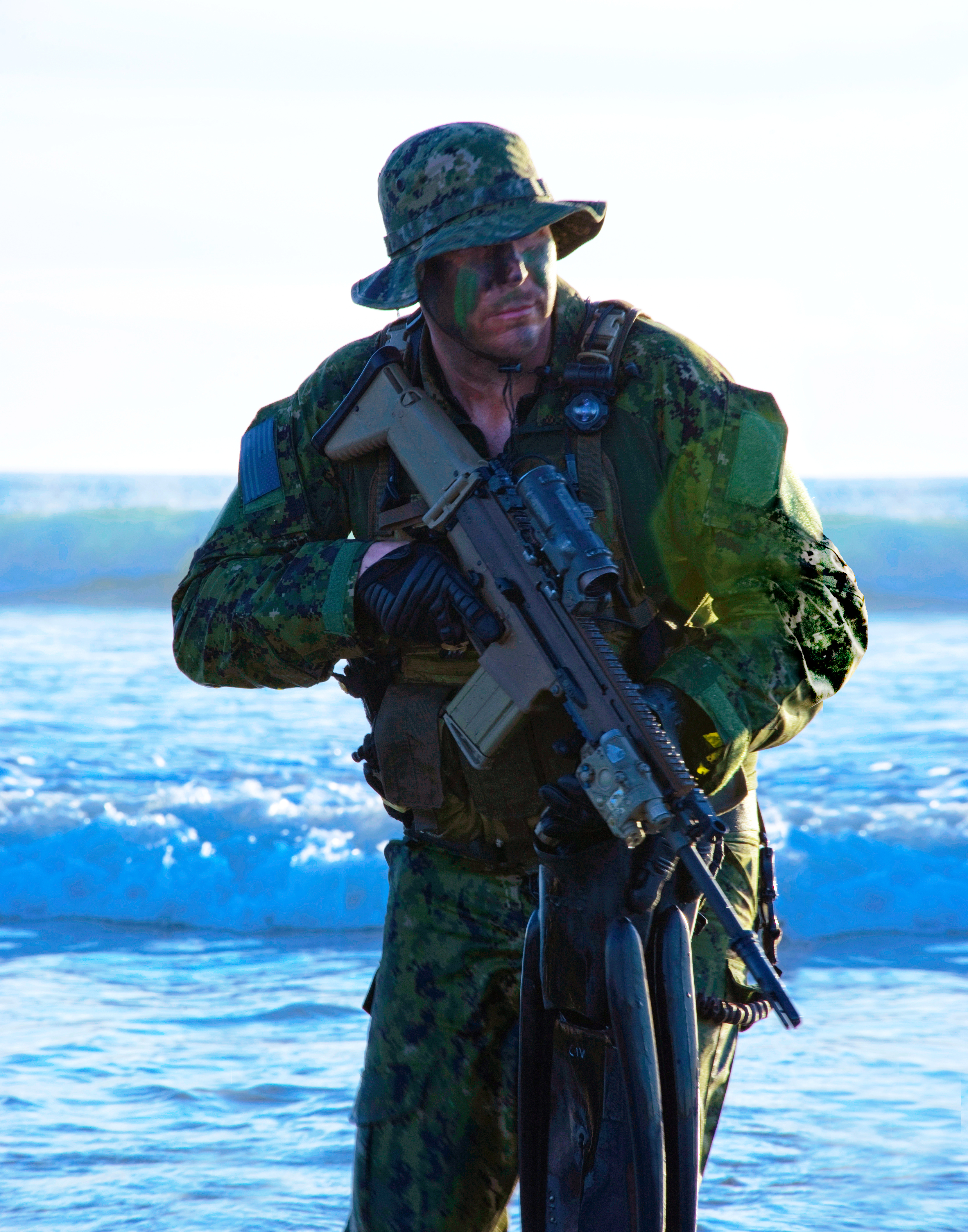 120109-N-OT964- California (09 Jan. 2012) Navy SEALs conduct training on land and in water. U.S. Navy photo by Mass Communication Specialist 2nd Class Martin L. Carey